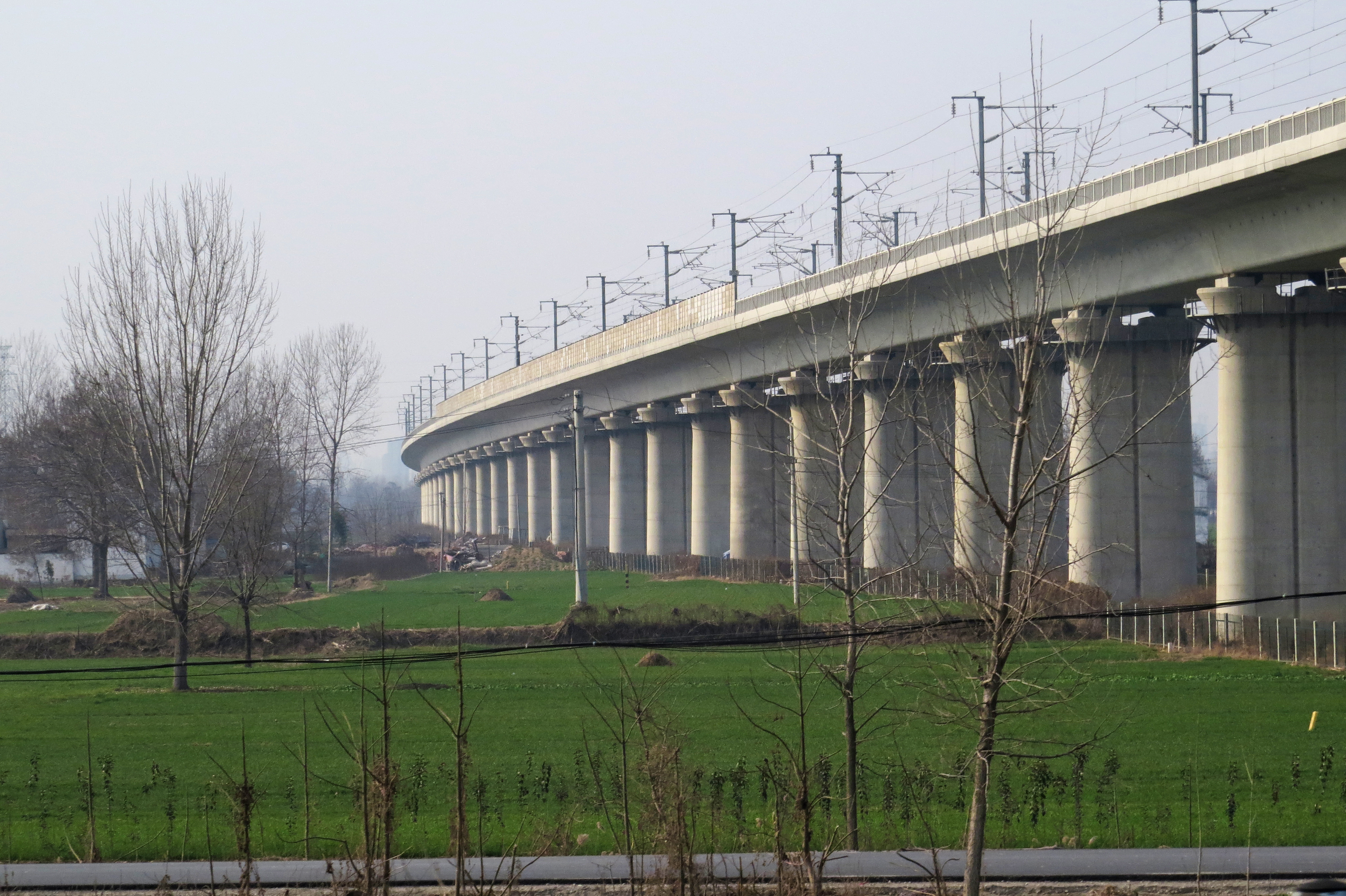 Taken near Zhoulou, Liangyuan District, Shangqiu. Longhai Railway is on the south.